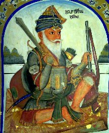 Akali Tapa Singh Shaheed was Saint soldier of Khalsa Panth during the times of the early Sikh Misls.